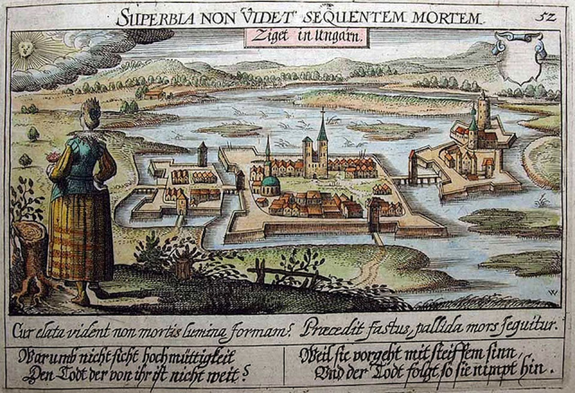 1627 Meisner Town View Szigetvár HUNGARY Famous 1566 Siege View Pride Allegory